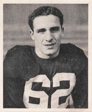 1948 Bowman football card of Charley Trippi of the Chicago Cardinals card number #17. PD-not-renewed.